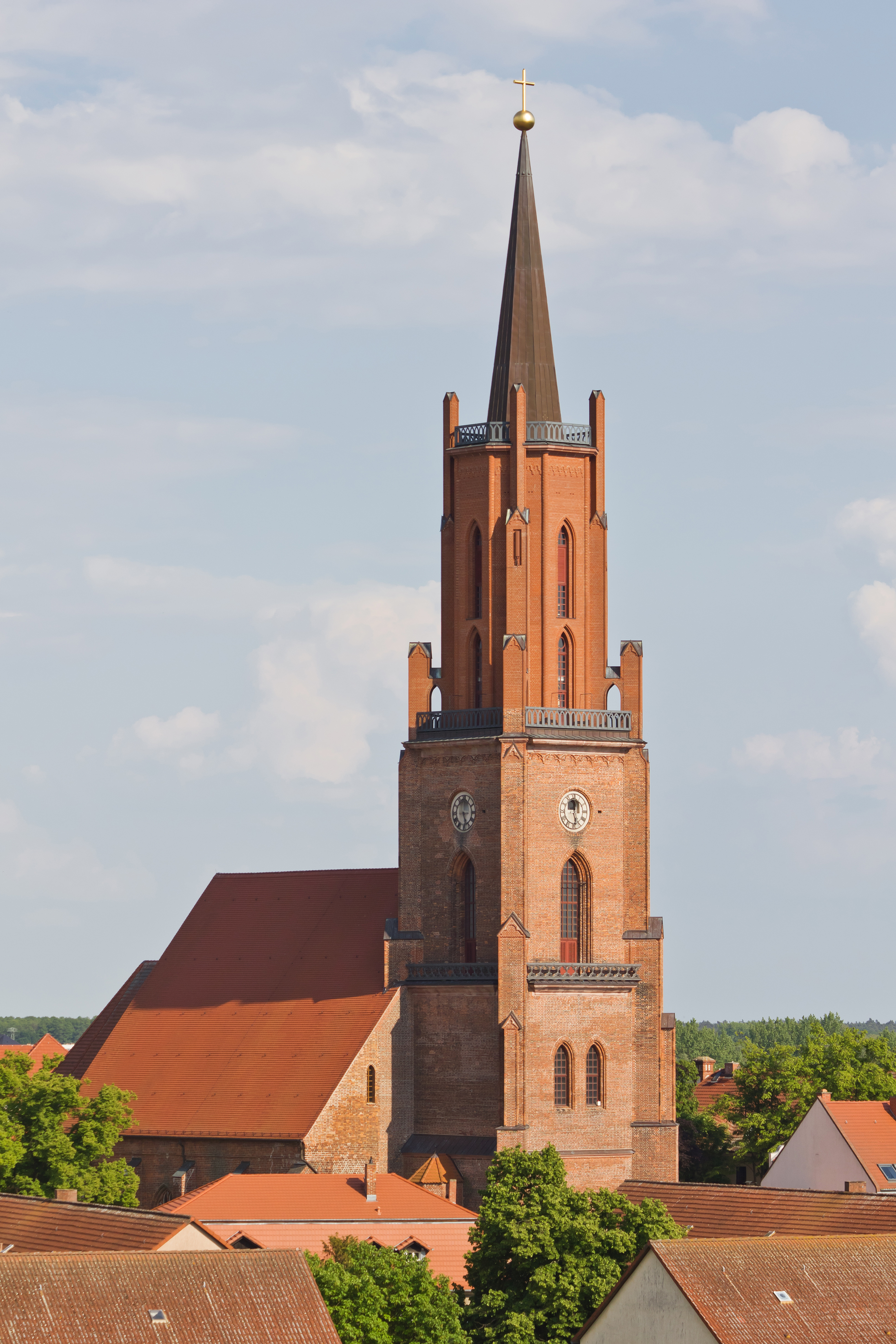 Rathenow, Brandenburg, Germany: view from the balcony of the former warehouse